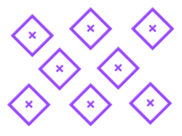 Infantry square